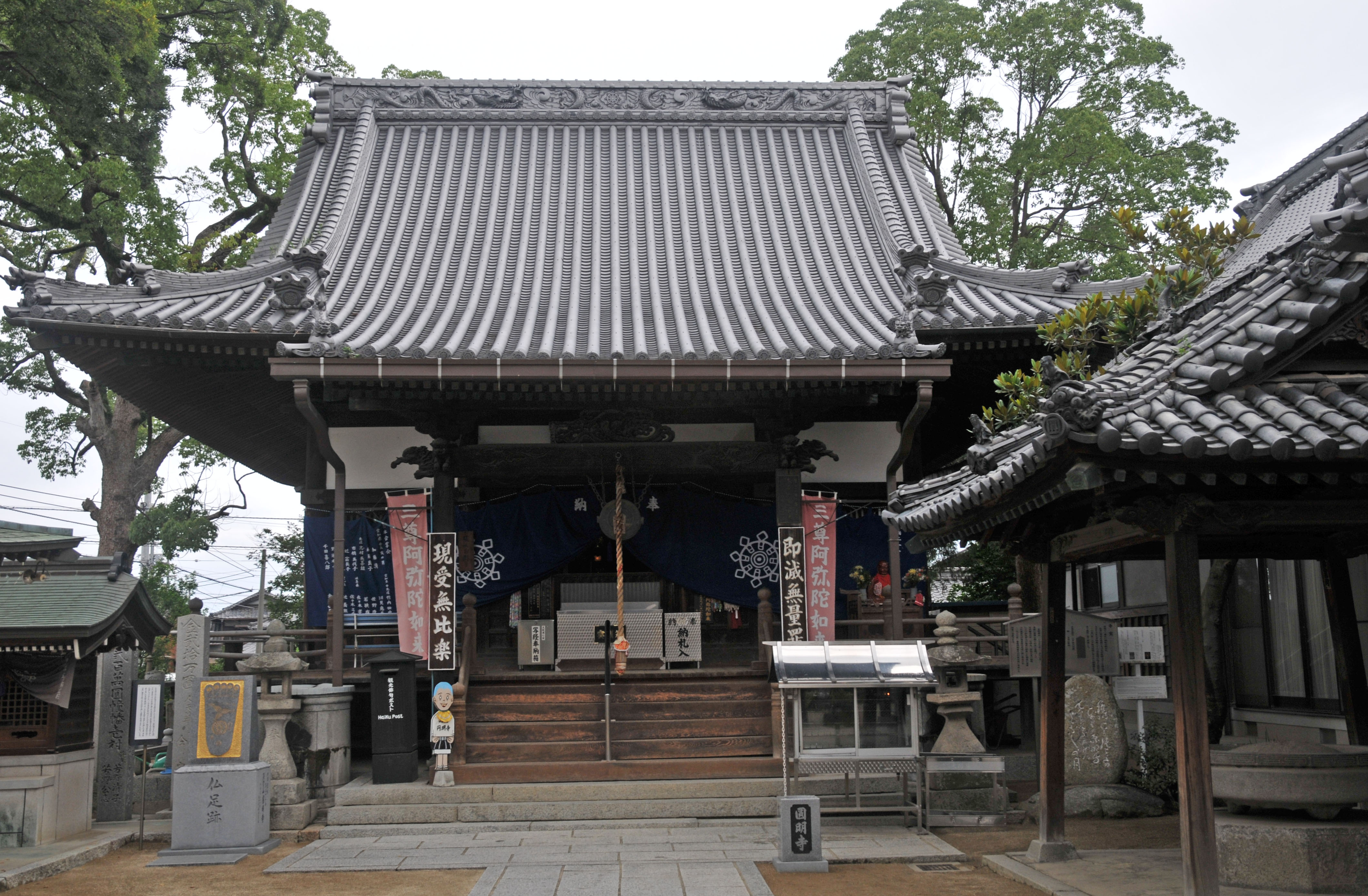 Main temple, Enmyō-ji